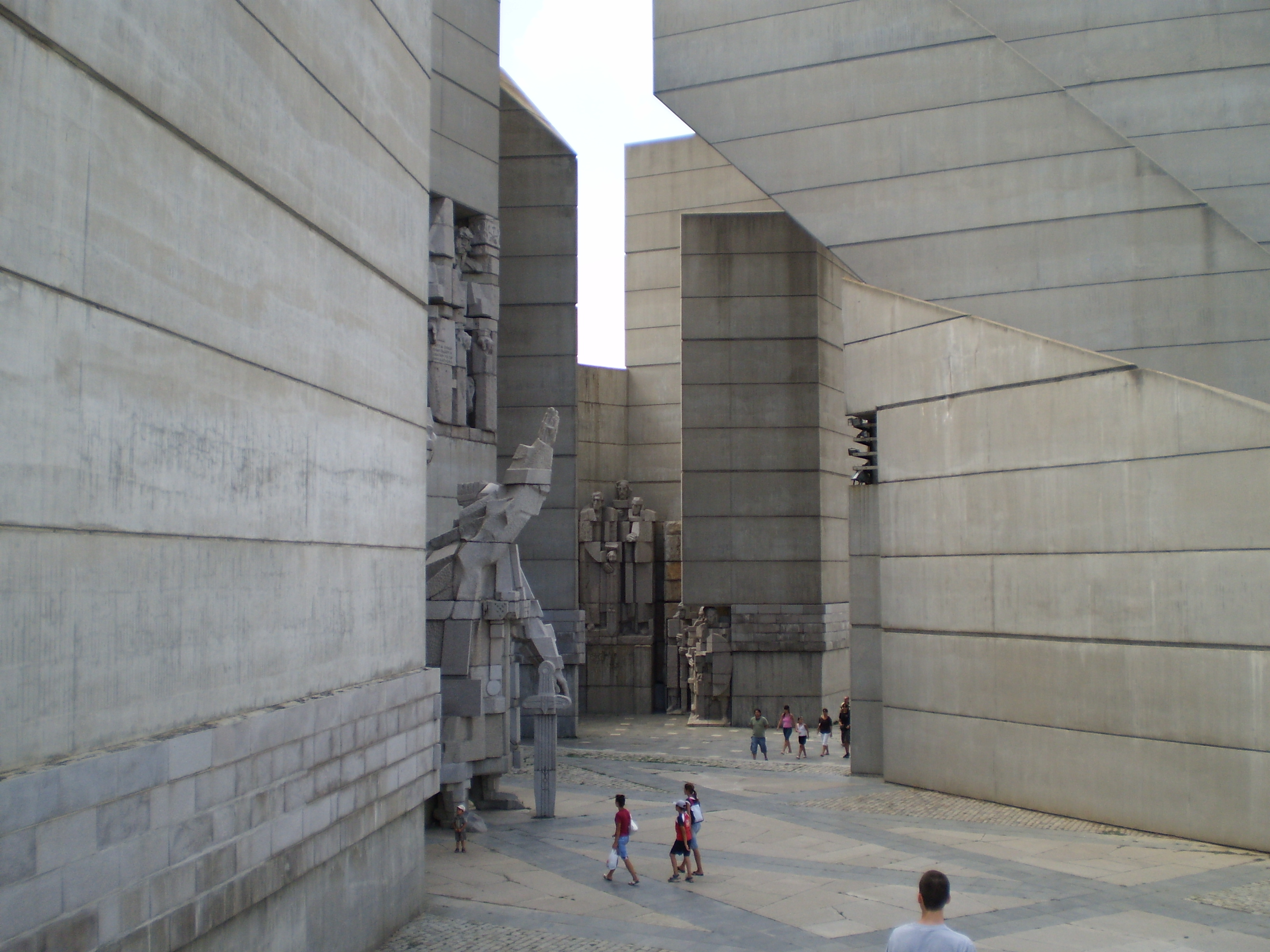 Monument to 1300 Years of Bulgaria, view